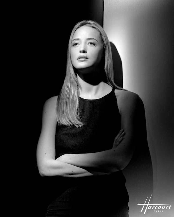 Hélène de Fougerolles photographed by Studio Harcourt Paris